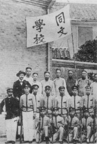 Kobe Chinese School in 1900.